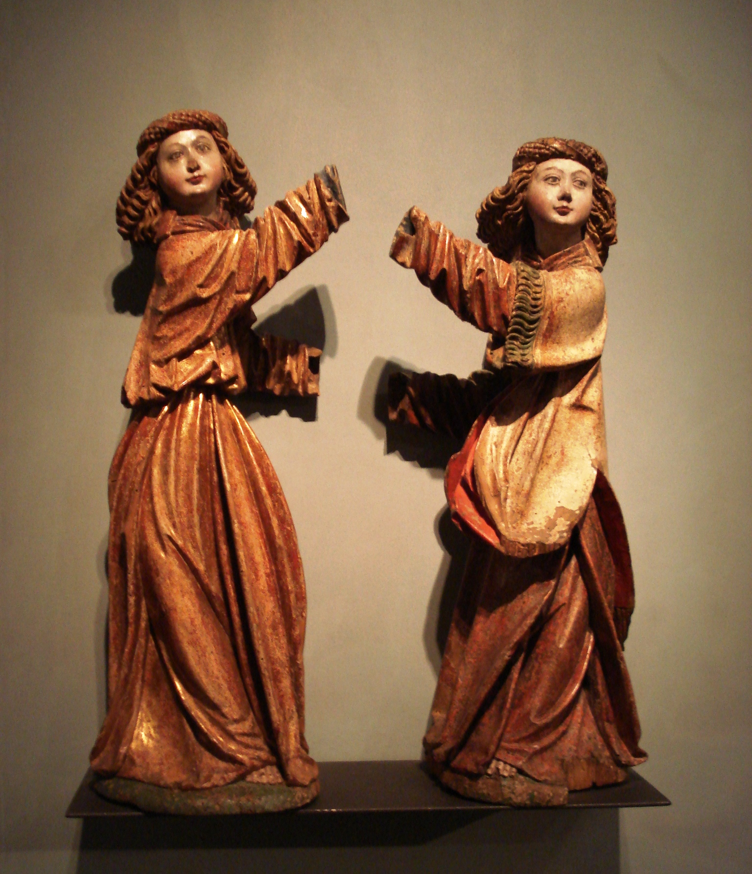 angels